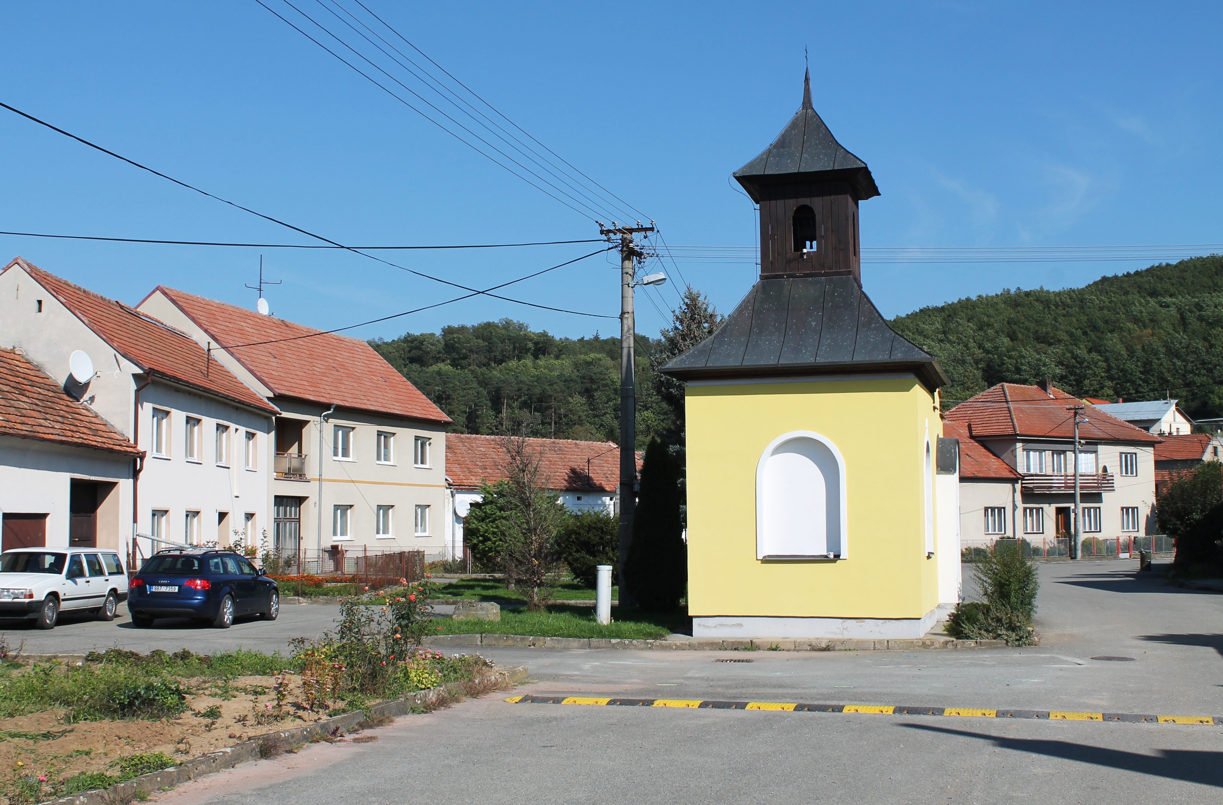 Chapel of Saint John of Nepomuk, Lažany, Blansko District, Czech Republic